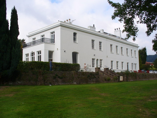 Broome Park This Georgian house stands in a large 18th century landscaped garden. It was the home of Sir benjamin Brodie who was a doctor for George IV. Today, the house is a nursing home.